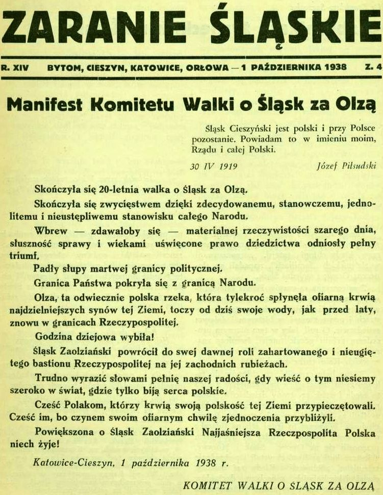 October 1st, 1938 issue of Zaranie Śląskie (Silesian Dawn) containing a manifesto of Komitet Walki o Śląsk za Olzą (Committee for Fight for Silesia beyond the Olza River), which was an organisation striving to unite Zaolzie with Poland. In the manifesto the KWoŚzaO announced the victorious end of the 20 year fight for incorporation of Zaolzie into Poland.